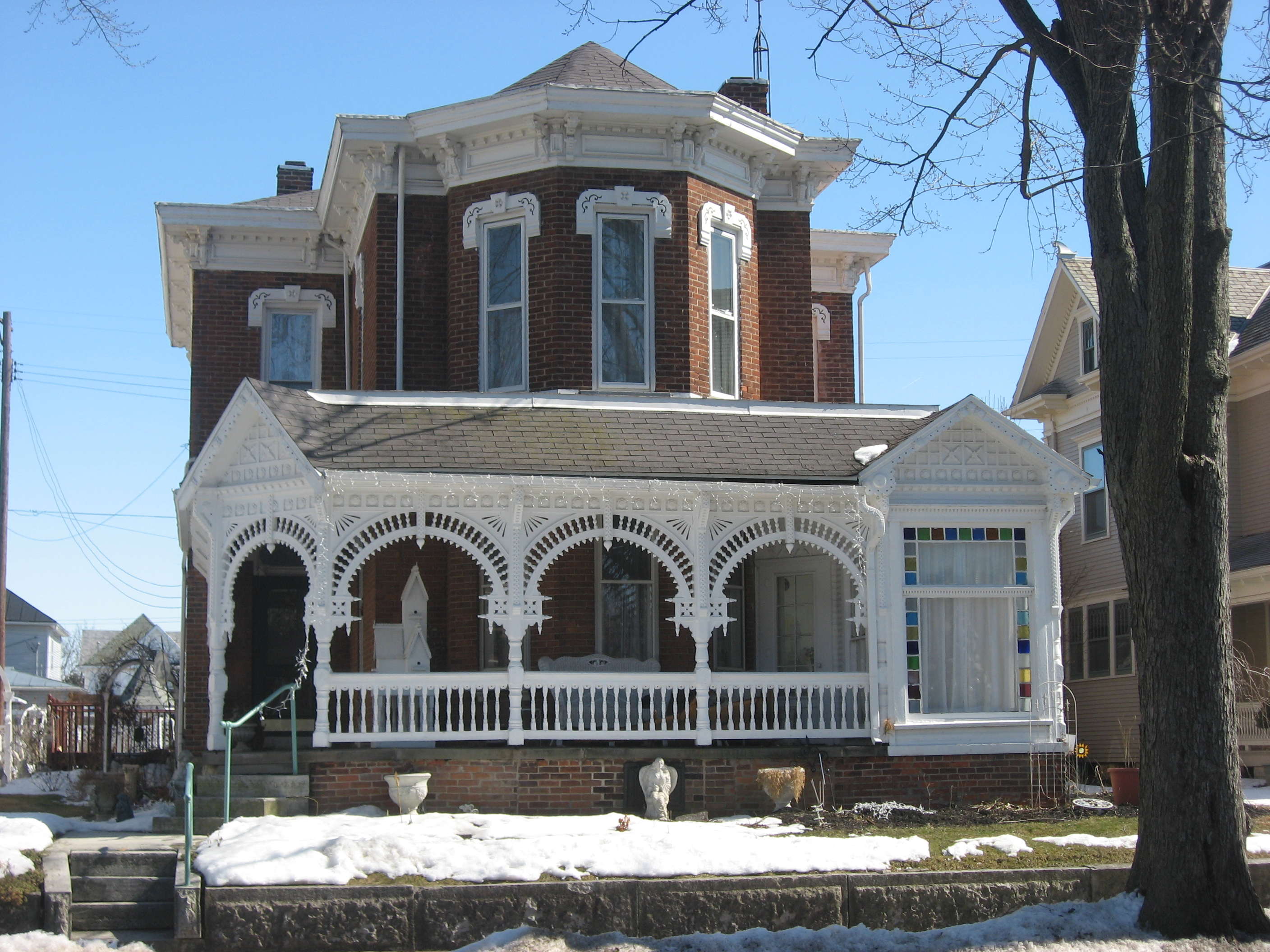 Front of the Benjamin Franklin Coppess House, located at 209 Washington Street (State Routes 49/121) in Greenville, Ohio, United States. Built in 1882, it is listed on the National Register of Historic Places.